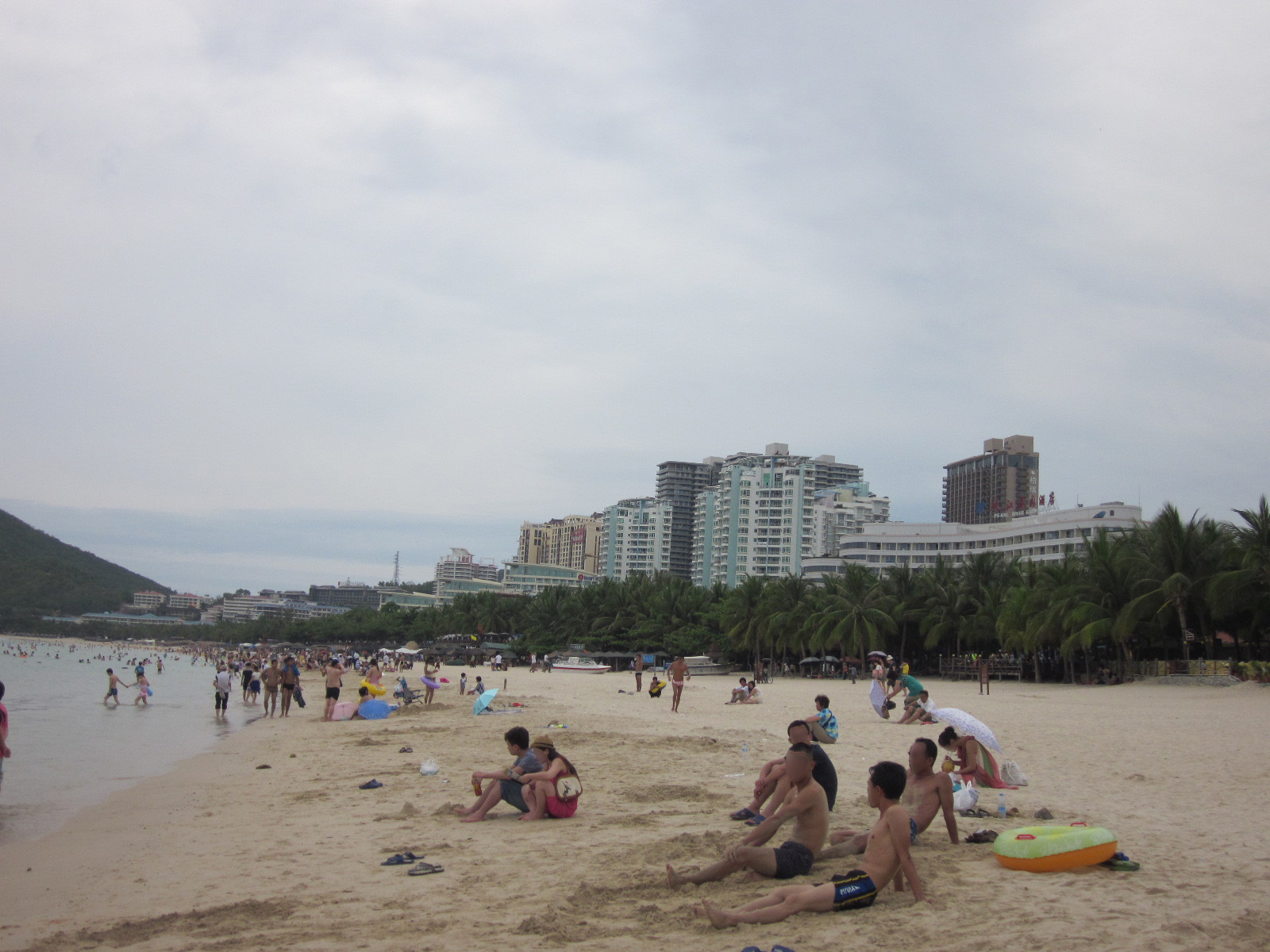 Dadonghai